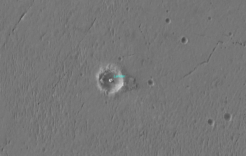 This part of HiRISE image (PSP_001414_1780_RED.jp2) shows the landing site of the Mars Exploration Rover Opportunity File: PSP_001414_1780_RED.jp2 Author: NASA/JPL/University of Arizona License: Data: 2006-11-29